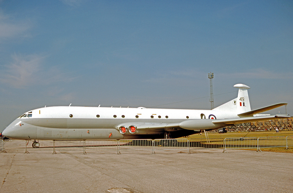 Hawker Siddeley HS801 Nimrod MR.1 XV249 of 203 Squadron RAF at RAF Finningley in 1977